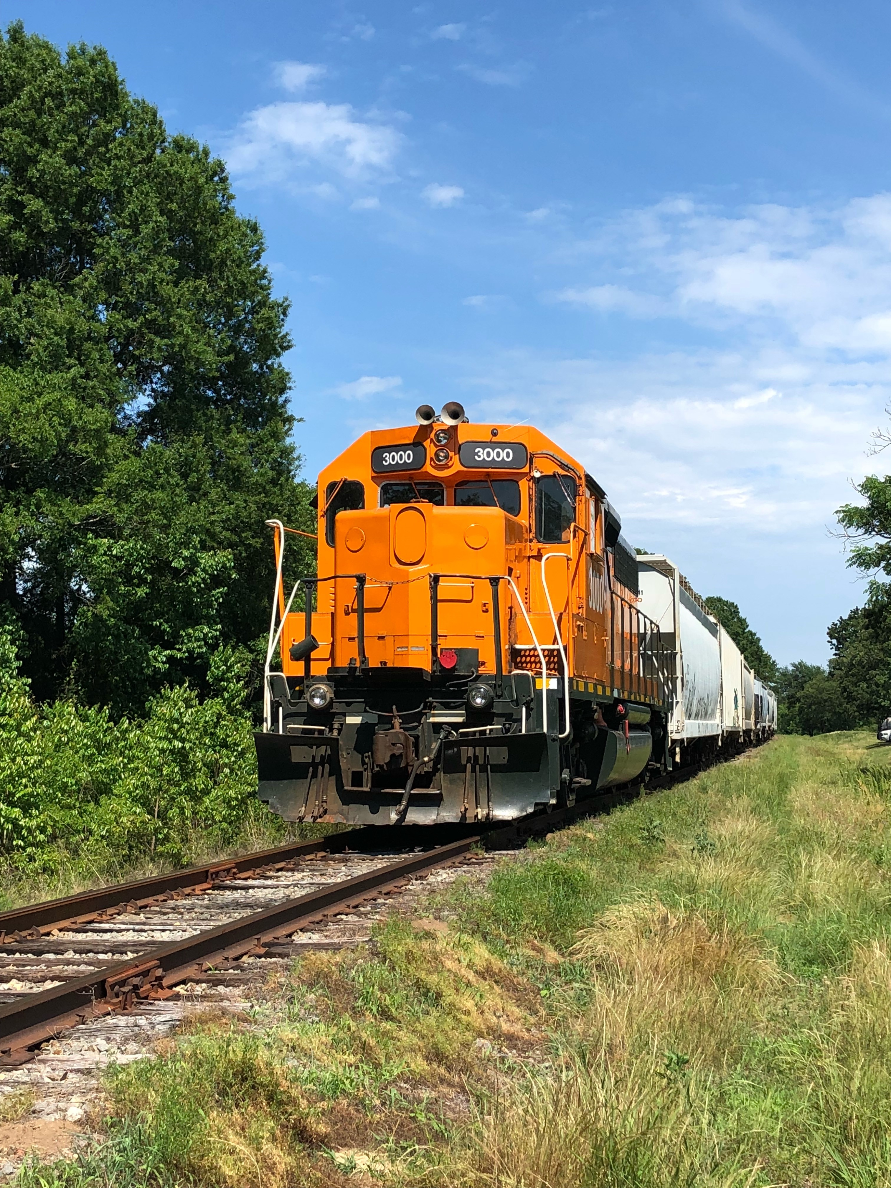 BLR 3000